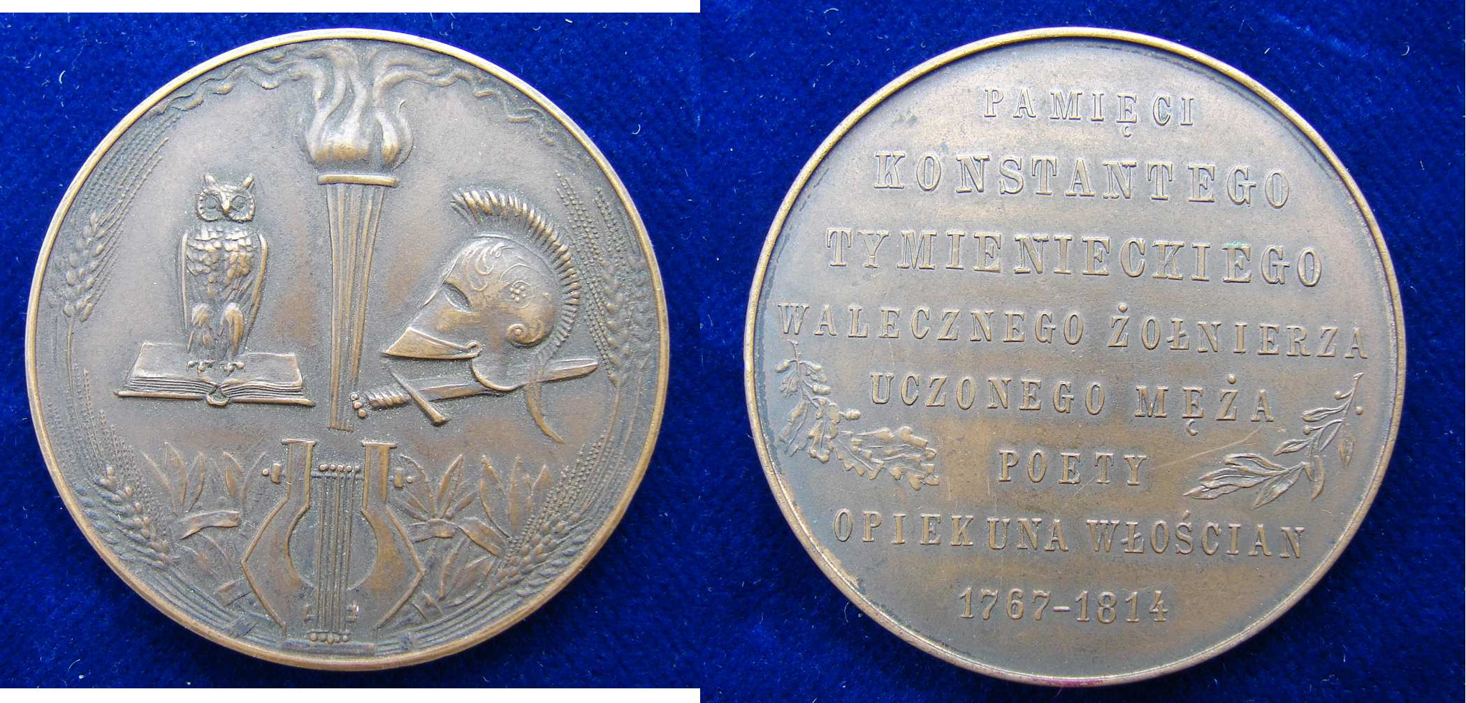 D. = 38 mm Tymieniecki, Konstanty, Poet, 1767 Ligocie near Lodz - 1814 Prażmowie, near Lodz, Poland Different emblems / 8 lines: "PAMIECI KONSTANTEGO TYMIENIECKIEGO WLAECZNEGO ZOLNIERZA UCZONEGO MEZA POETY OPIEKUNA WLOSZIAN 1767 - 1814" Condition: EXTREMELY FINE